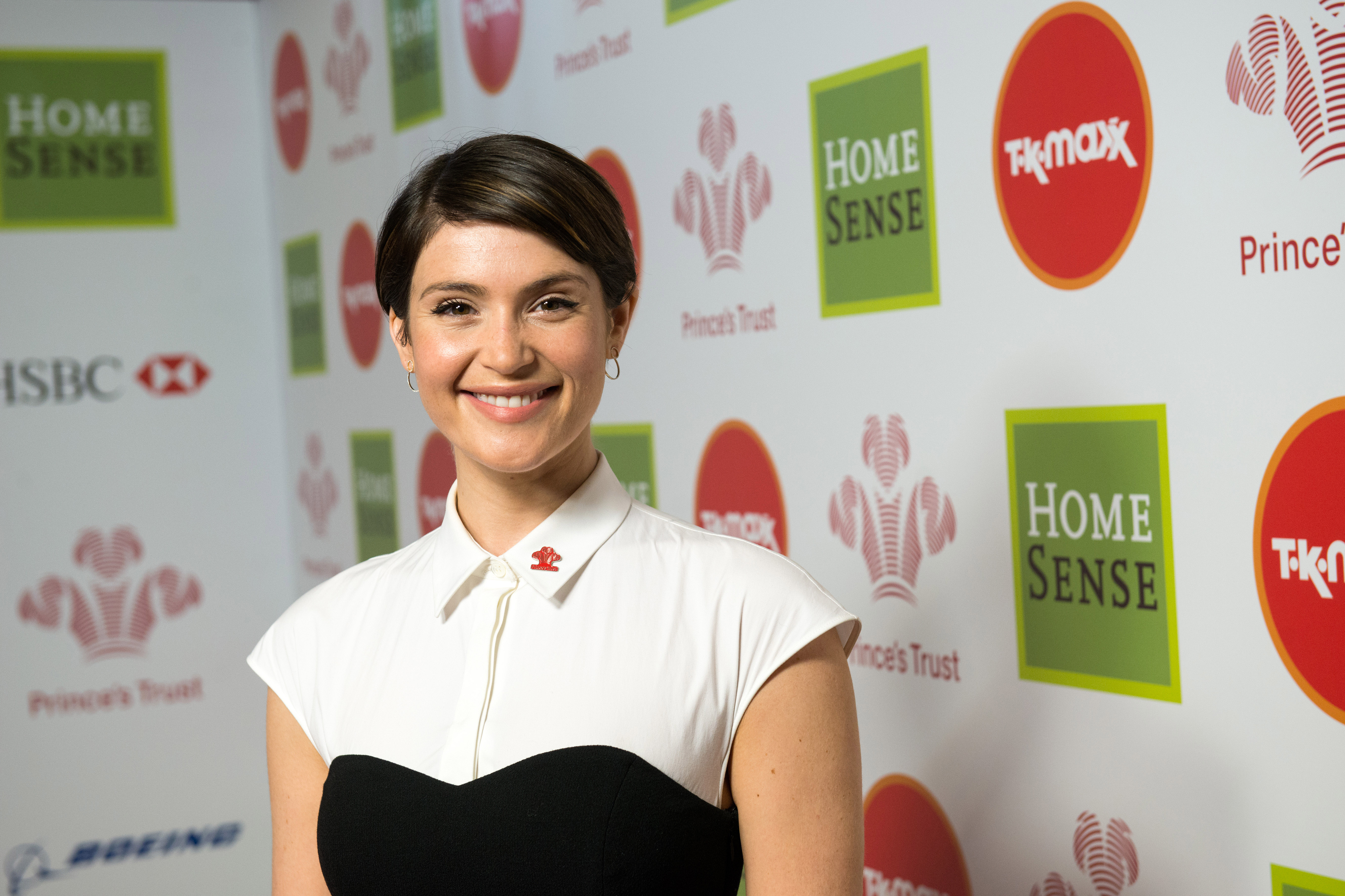 Gemma Arterton at The Prince's Trust Awards Ceremony, 2017.